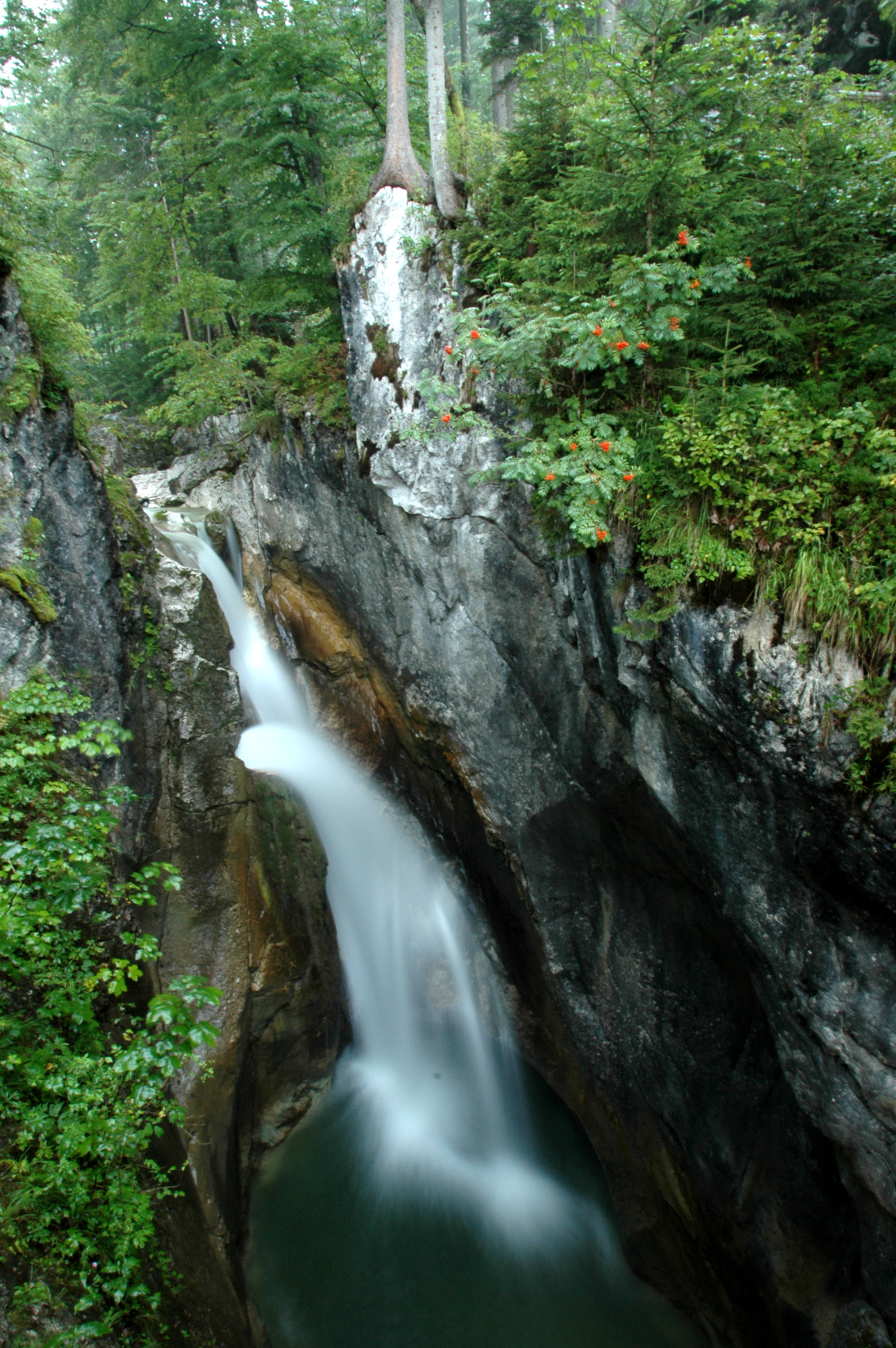 Tatzelwurm waterfall near Oberaudorf/Germany